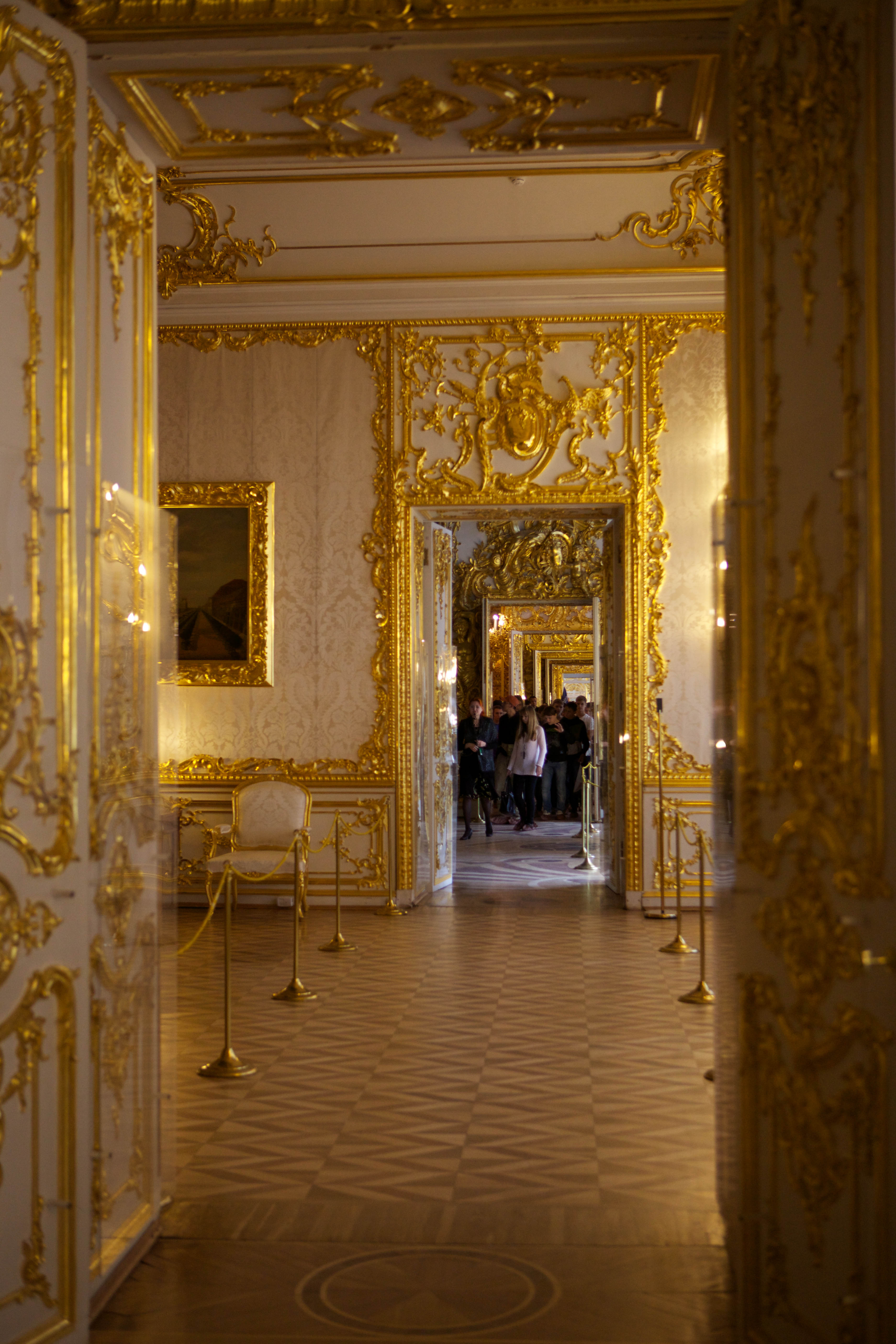 Catherine Palace, Tsarskoe Selo, Saint-Petersburg, Russia